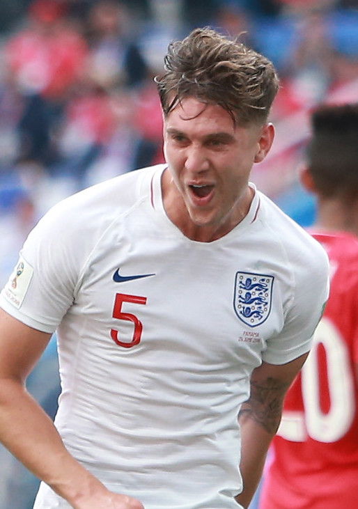 John Stones after scoring a goal against Panama at the 2018 FIFA World Cup